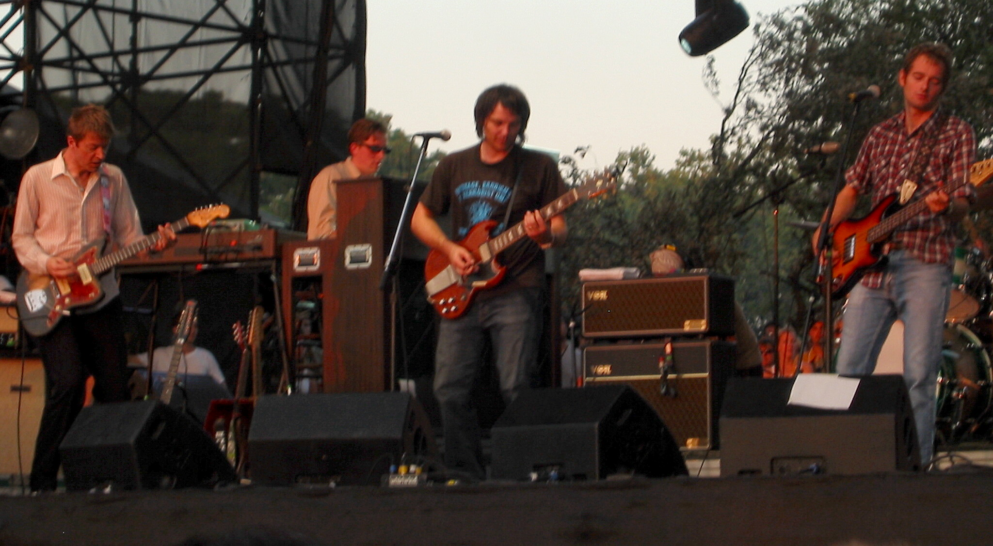 Wilco at Austin City Limits Fest Sep 2004